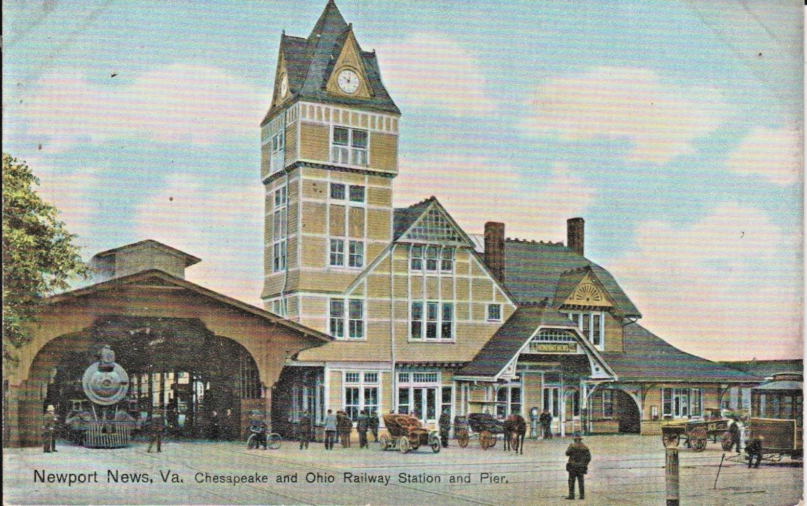 Early divided back postcard of Newport News station and pier